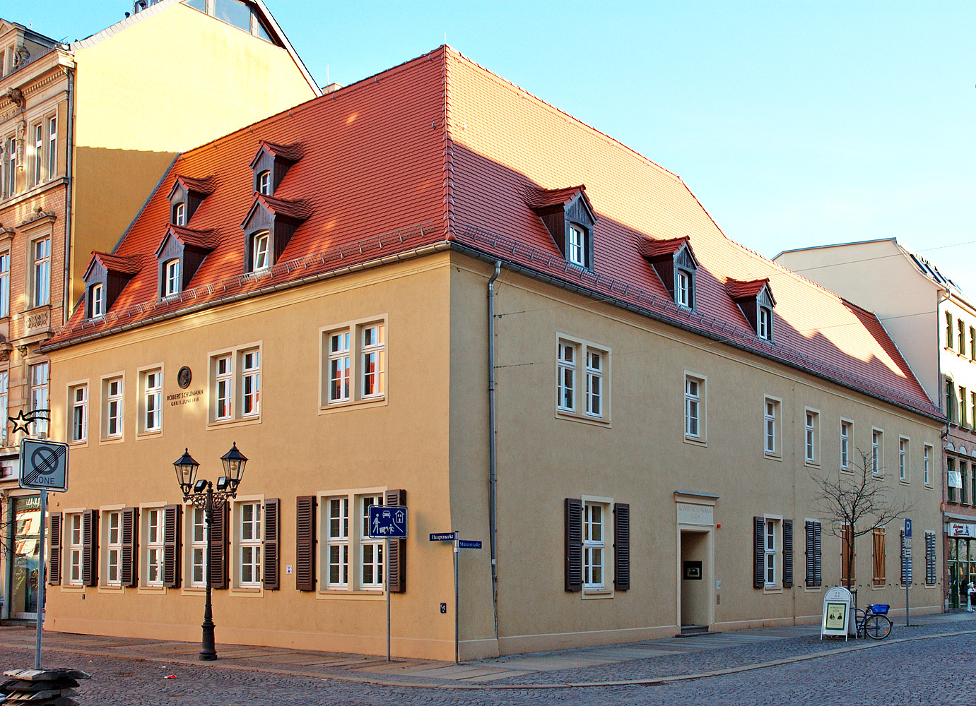 This image shows the Robert Schumann birth house in Zwickau (Saxony, Germany).